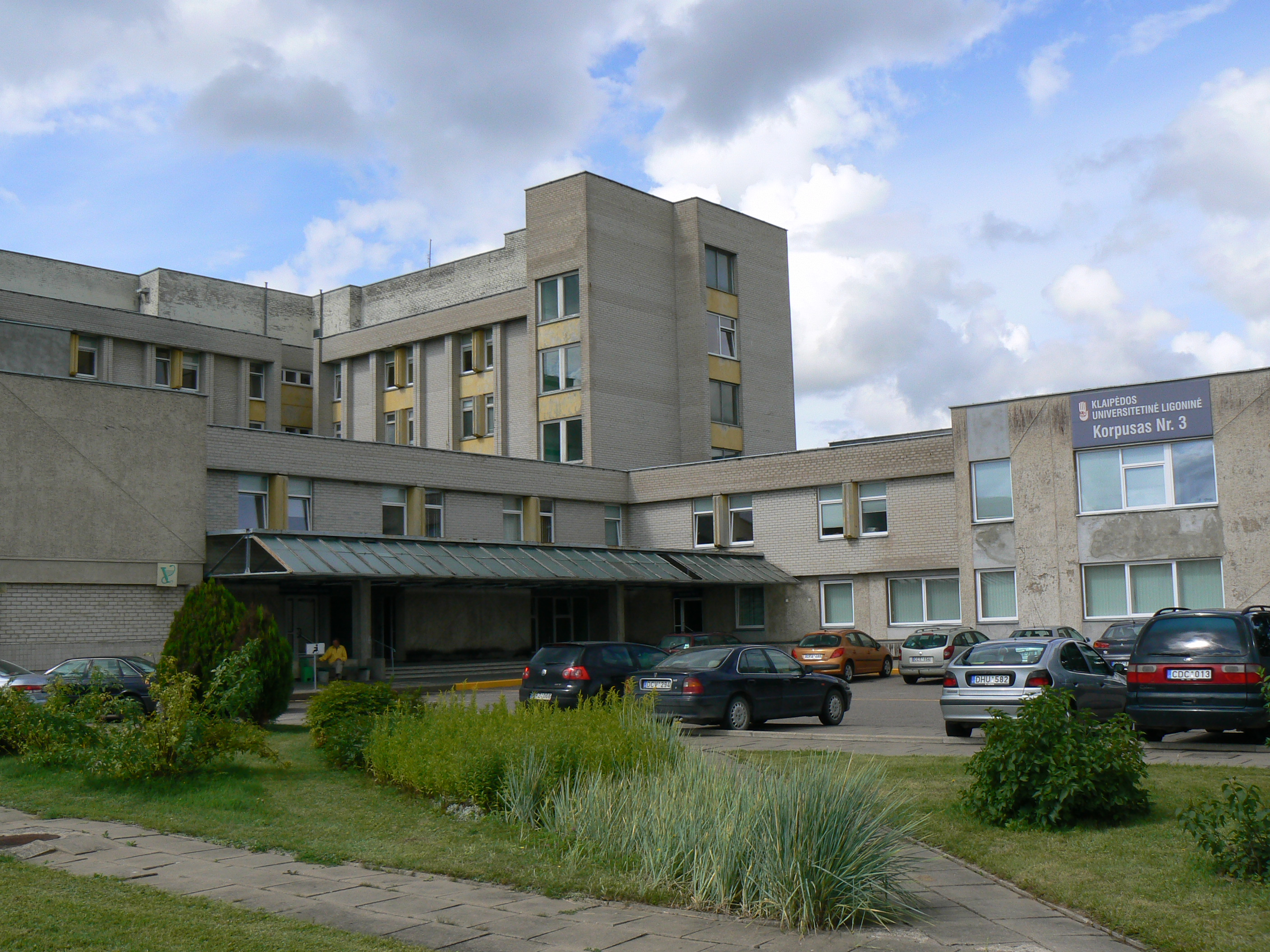 Oncology dpt of Klaipėda University's Hospital